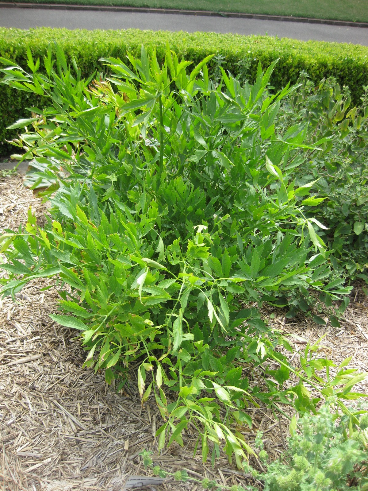 Photographed at the Royal Botanic Gardens Sydney (Australia) in January